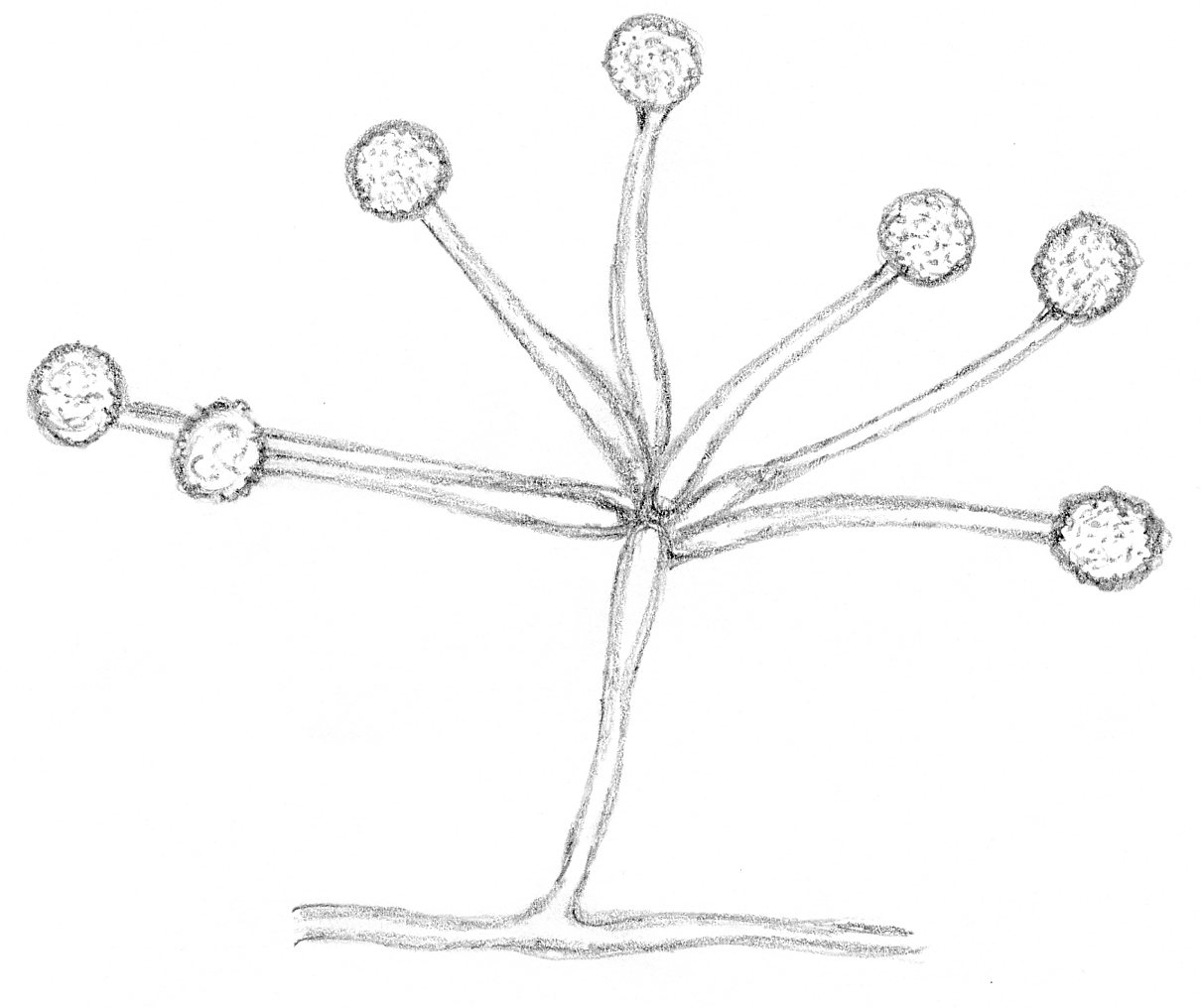 Mortierella Moitospor branched112